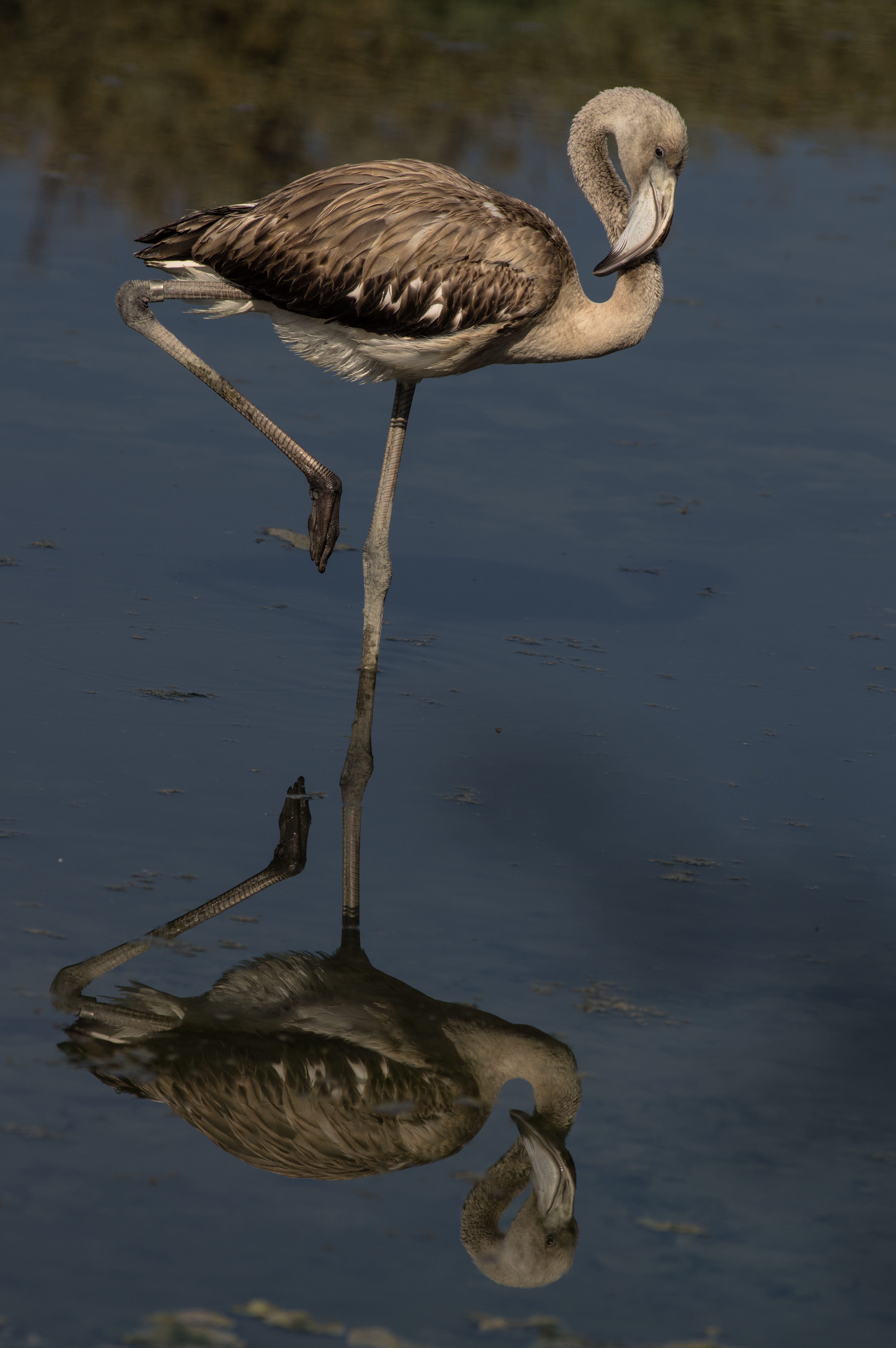 Greater flamingo (Phoenicopterus roseus), (sub-adult), Għadira Nature Reserve, Malta